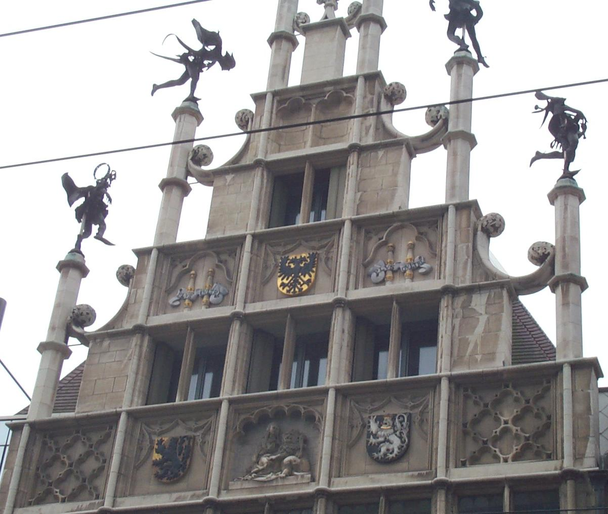 Plus Oultre on a gable/facade of a Flemish house in Ghent, Copyright © 2004 Kaihsu Tai